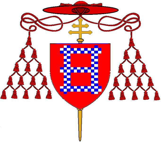 Gules, a three rungs ladder of checky argent and azure.